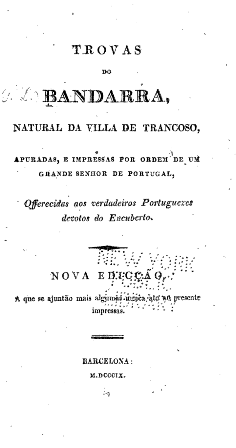 Book cover of the Trovas do Bandarra, a collection of poems written by Bandarra